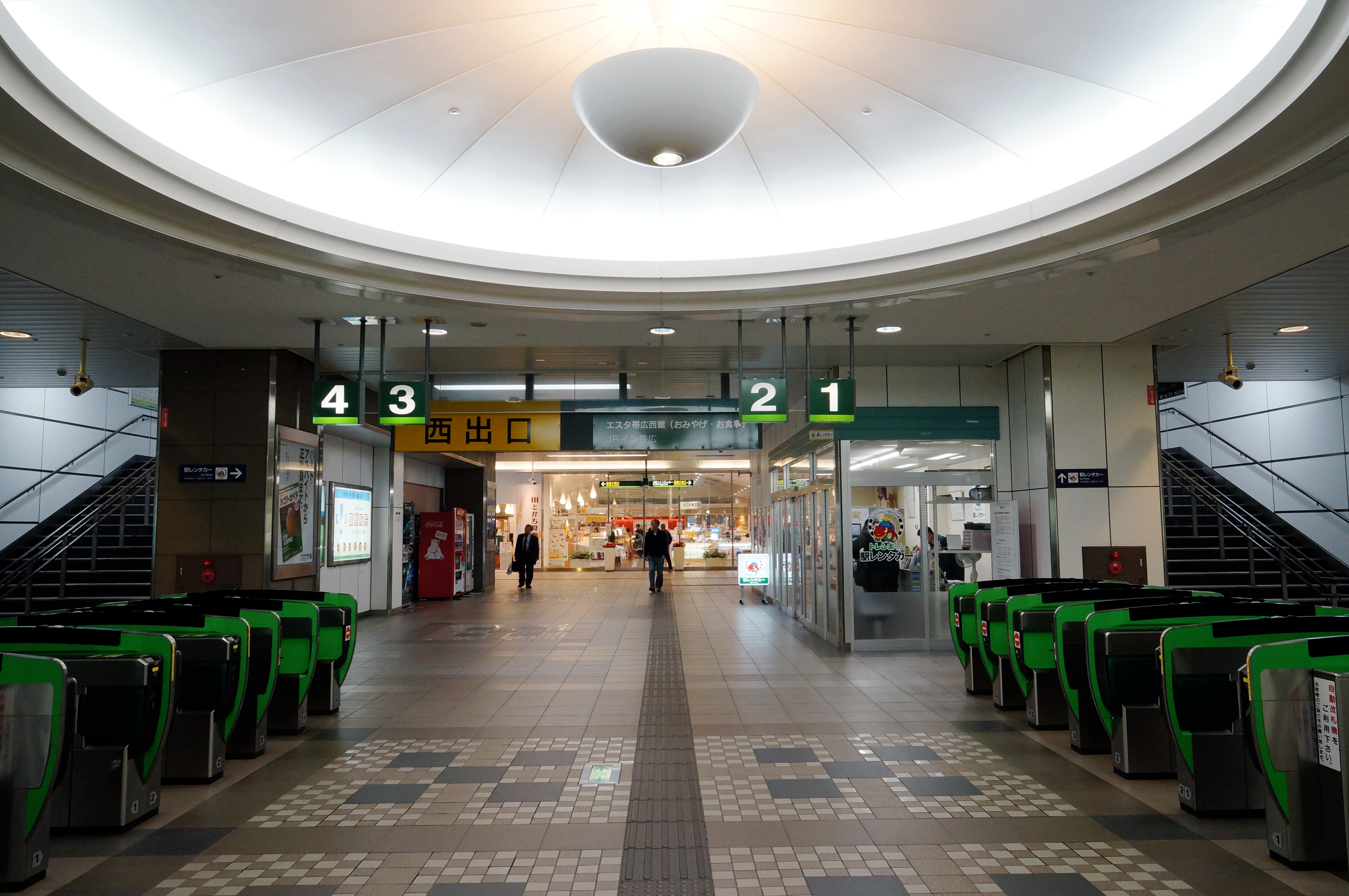 Obihiro Station in Obihiro, Hokkaido prefecture, Japan.